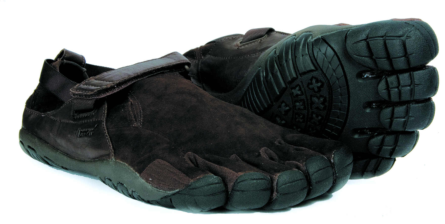 Pair of Vibram Five Finger shoes, July 2010